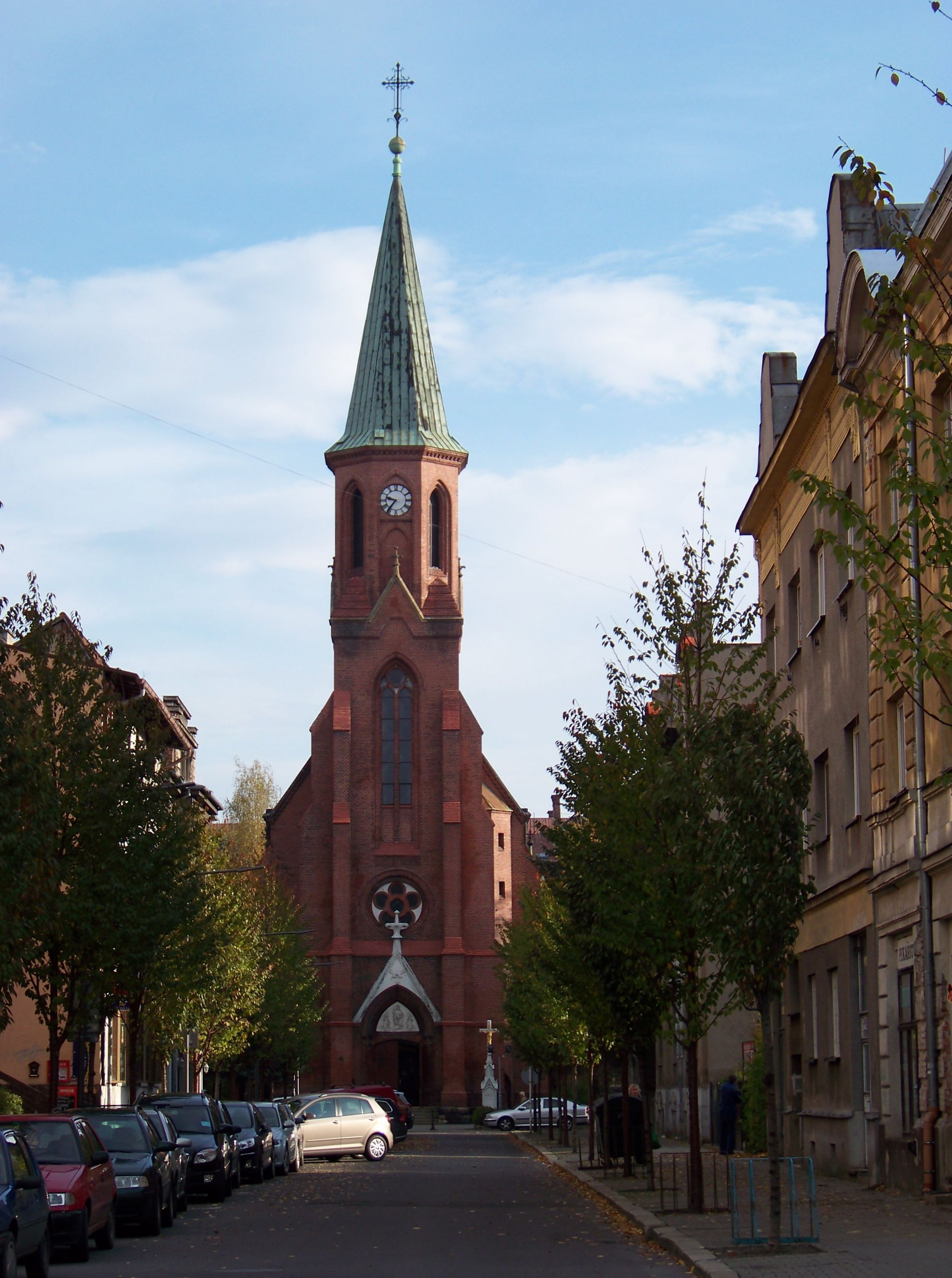 Bohumín-Nový Bohumín, Karviná District, Moravian-Silesian Region, Czech Republic. Kostelní street, Sacred Heart church. - OpenStreetMap (Info)